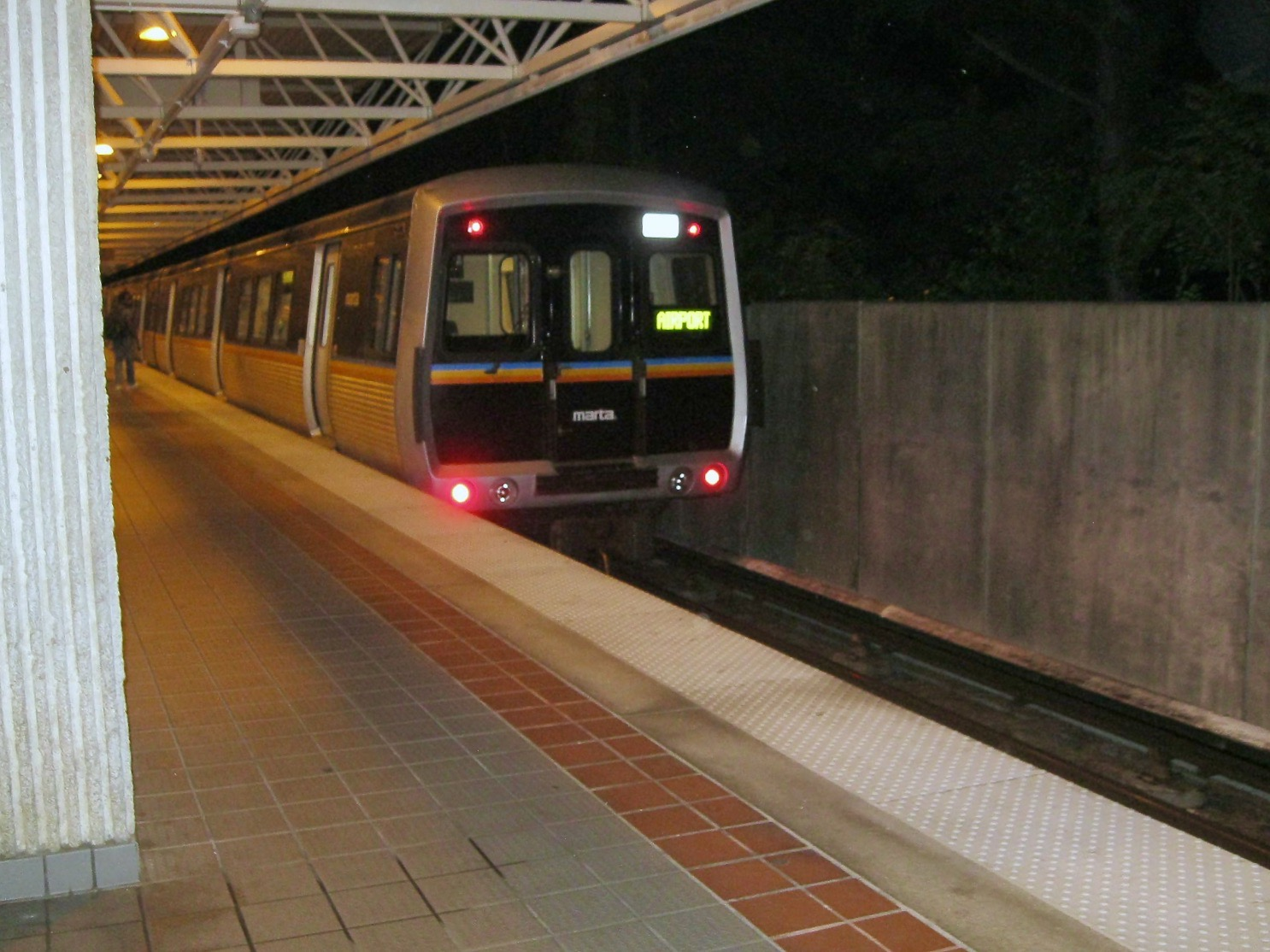 MARTA CQ310 leaving Chamblee station bound to Harts-field Jackson International Airport at night.